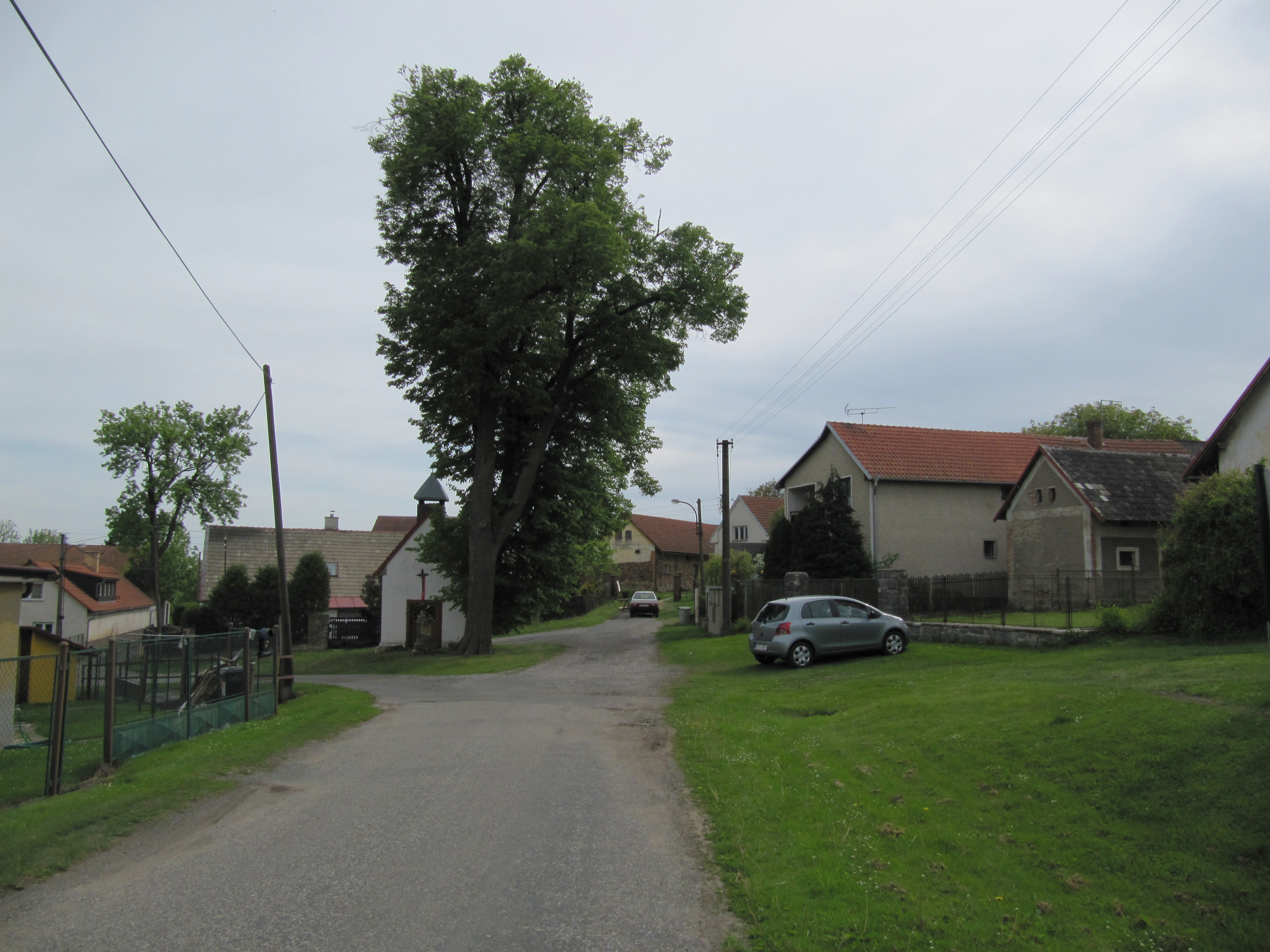 Choratice in Benešov District, Czech Republic. Lime and chapel.